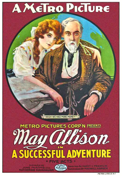 Poster forthe 1918 film A Successful Adventure.